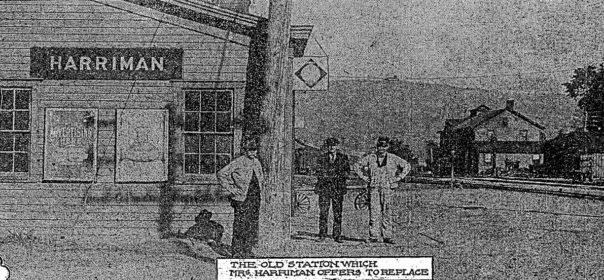 The 1873 depot for Harriman Station photographed during the Turner-Harriman debate of May-June 1910.